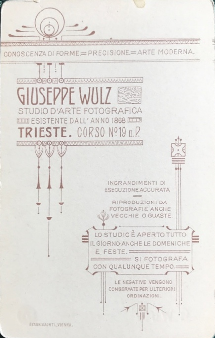 Backside of photographs of Wulz, Giuseppe (1868-1918) with his studio's adress in Triest